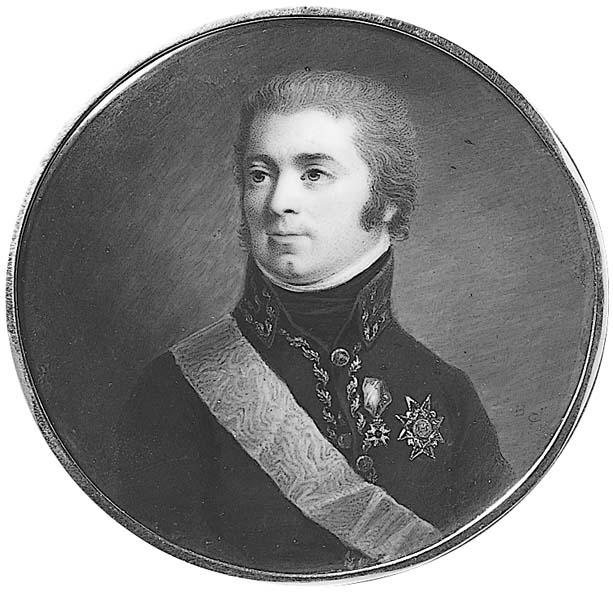 Swedish military commander and politician count Hans Henrik von Essen (September 26, 1755 – June 28, 1824).